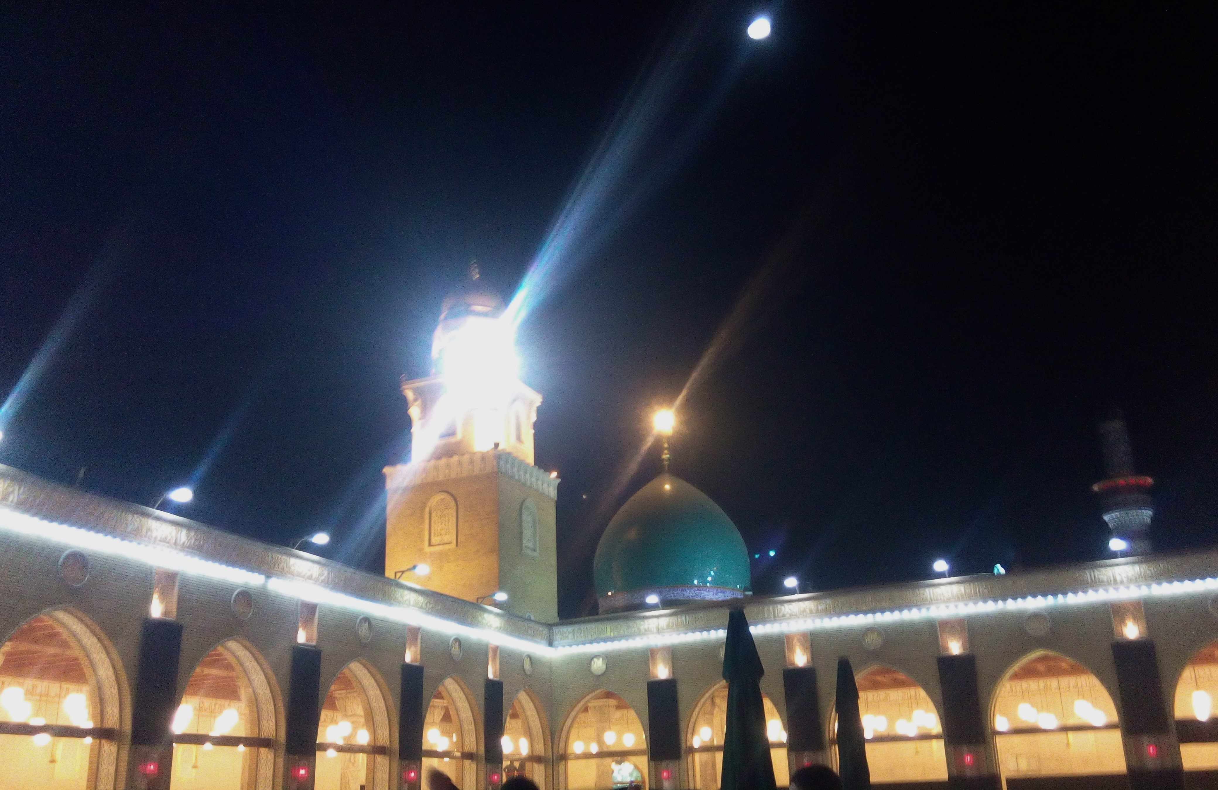 Holy Shrine of Hussein ibn Ali's companion